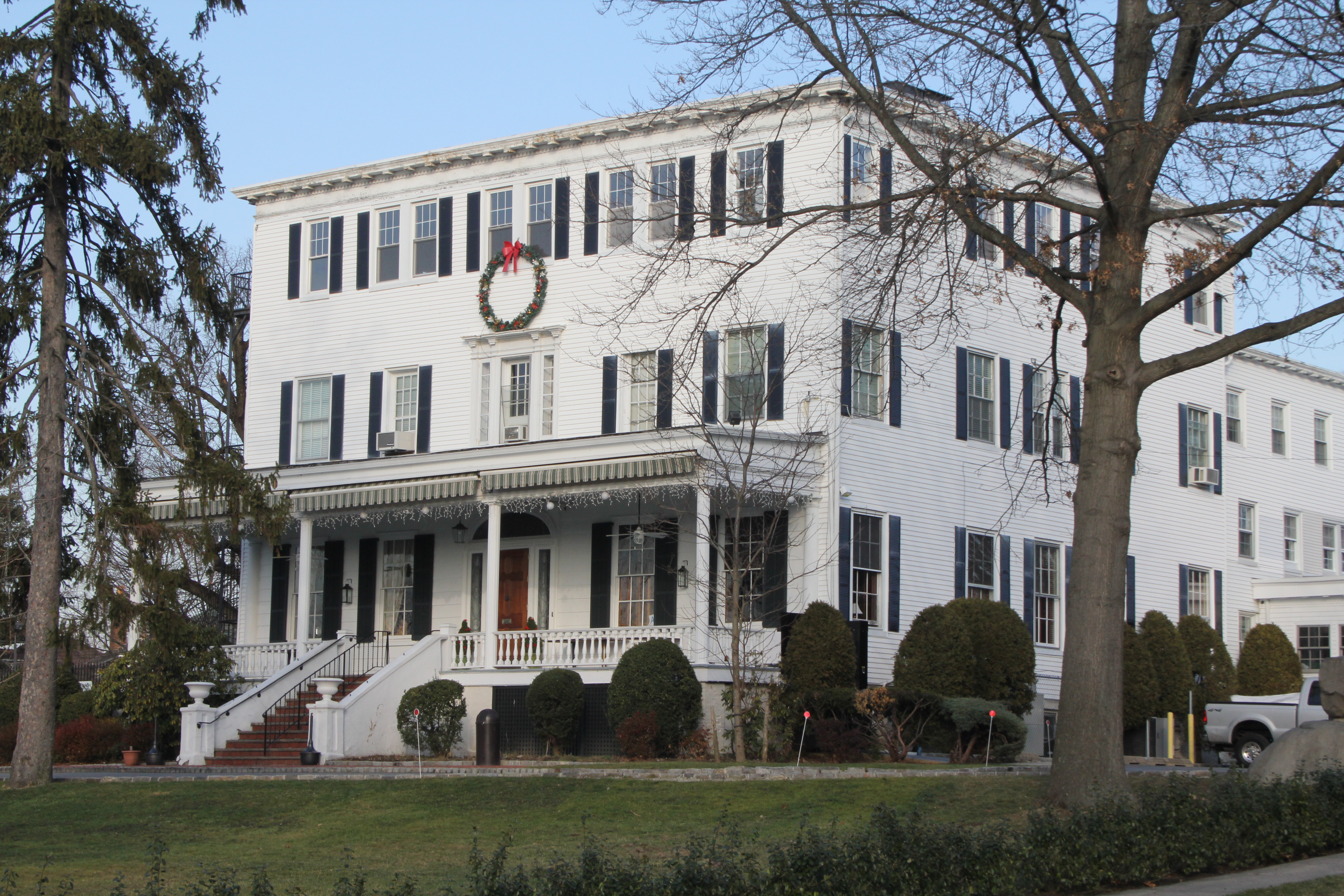 Douglaston Club, Douglaston, borough of Queens, New York City. Built circa 1819 as the Van Zandt manor house and expanded in the early 1900s to serve as a private club. A contributing building in the National Register of Historic Places' Douglaston Historic District.